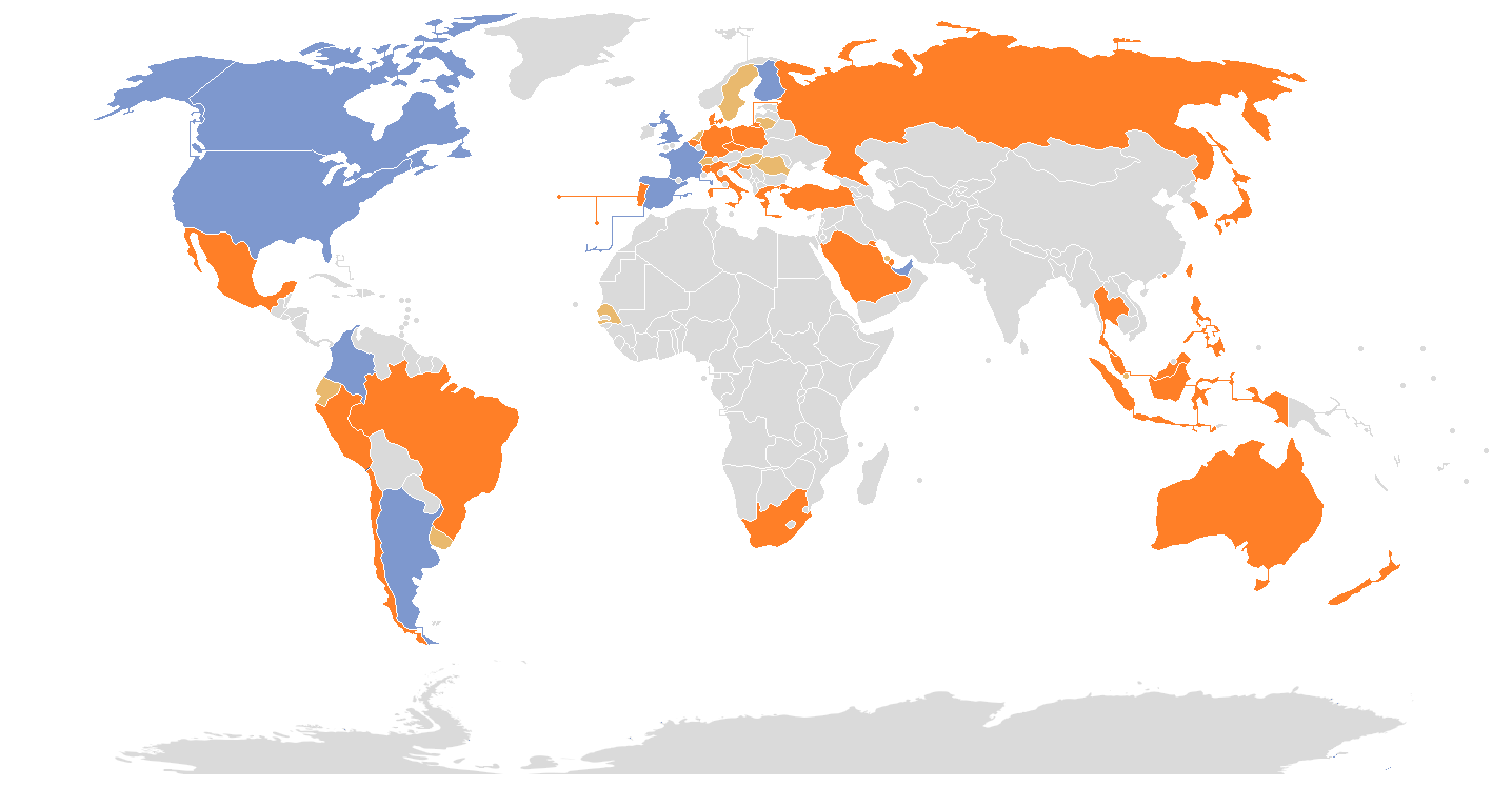 HERE Maps street level views coverage with: partial coverage full or partial coverage planned full or partial coverage disputed no current, planned or disputed coverage